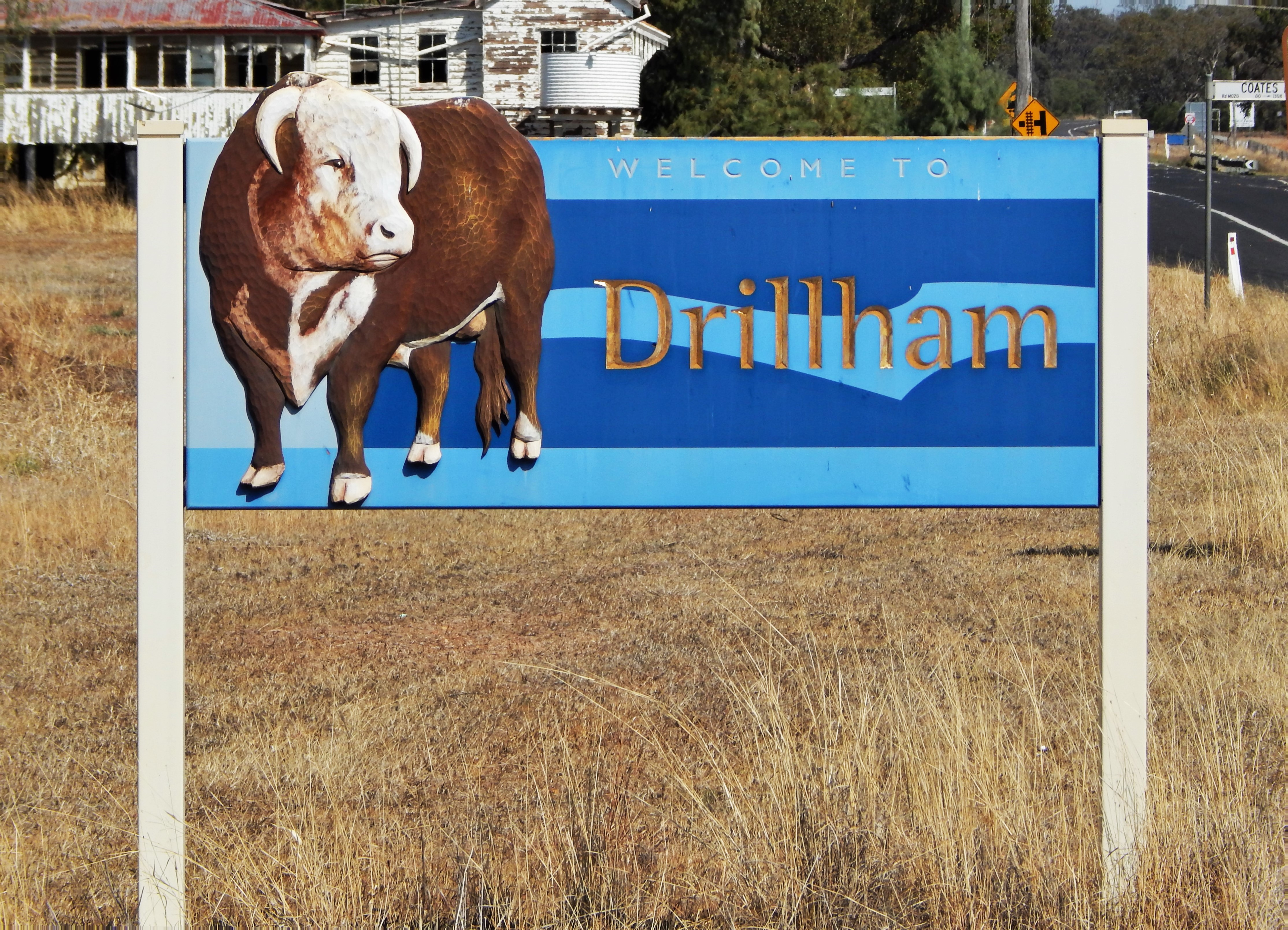 The Welcome to Drillham sign located at the eastern entrance to the town of Drillham, Queensland on the Warrego Highway